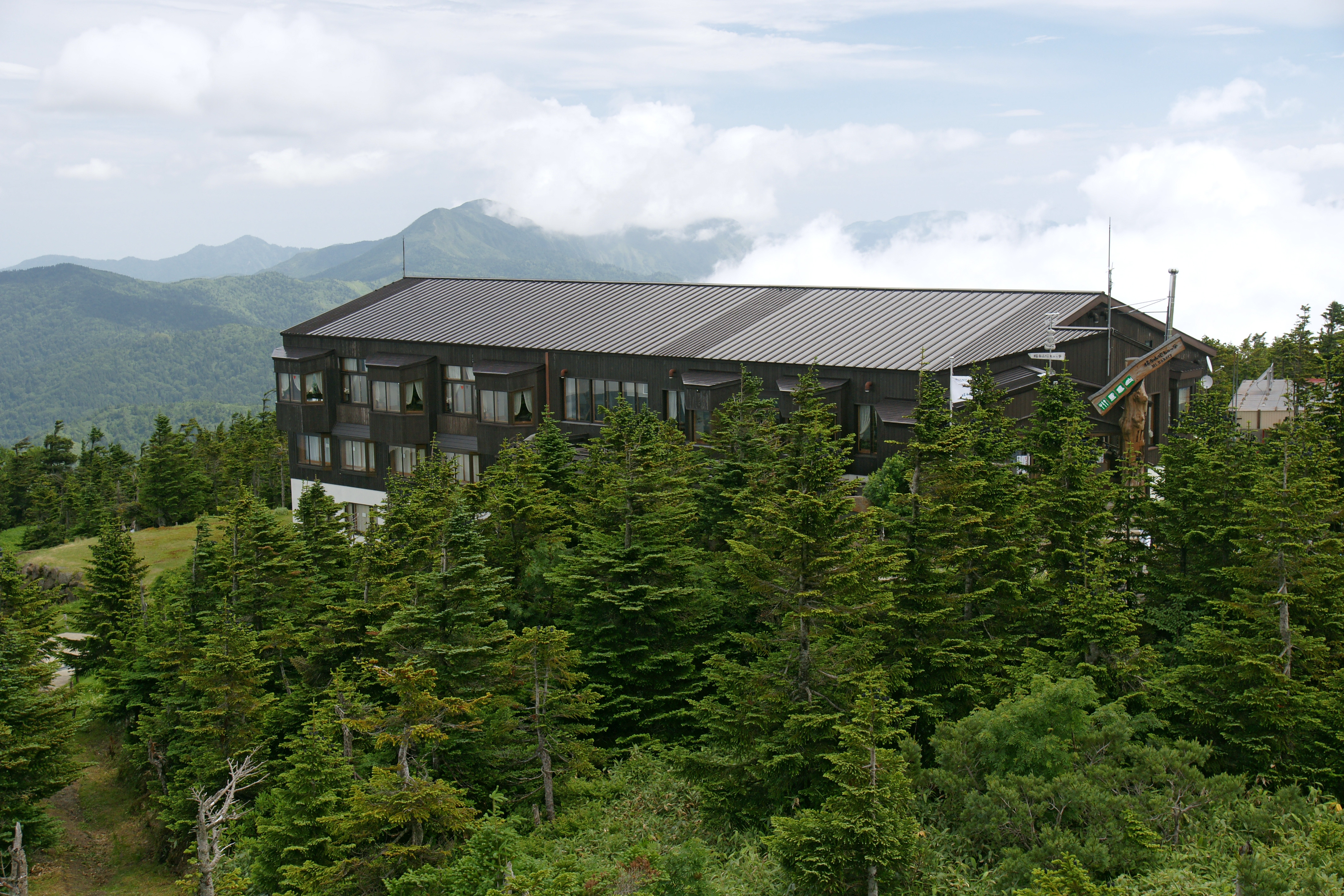 Mt. Yokote ,Yamanouchi, Nagano prefecture, Japan